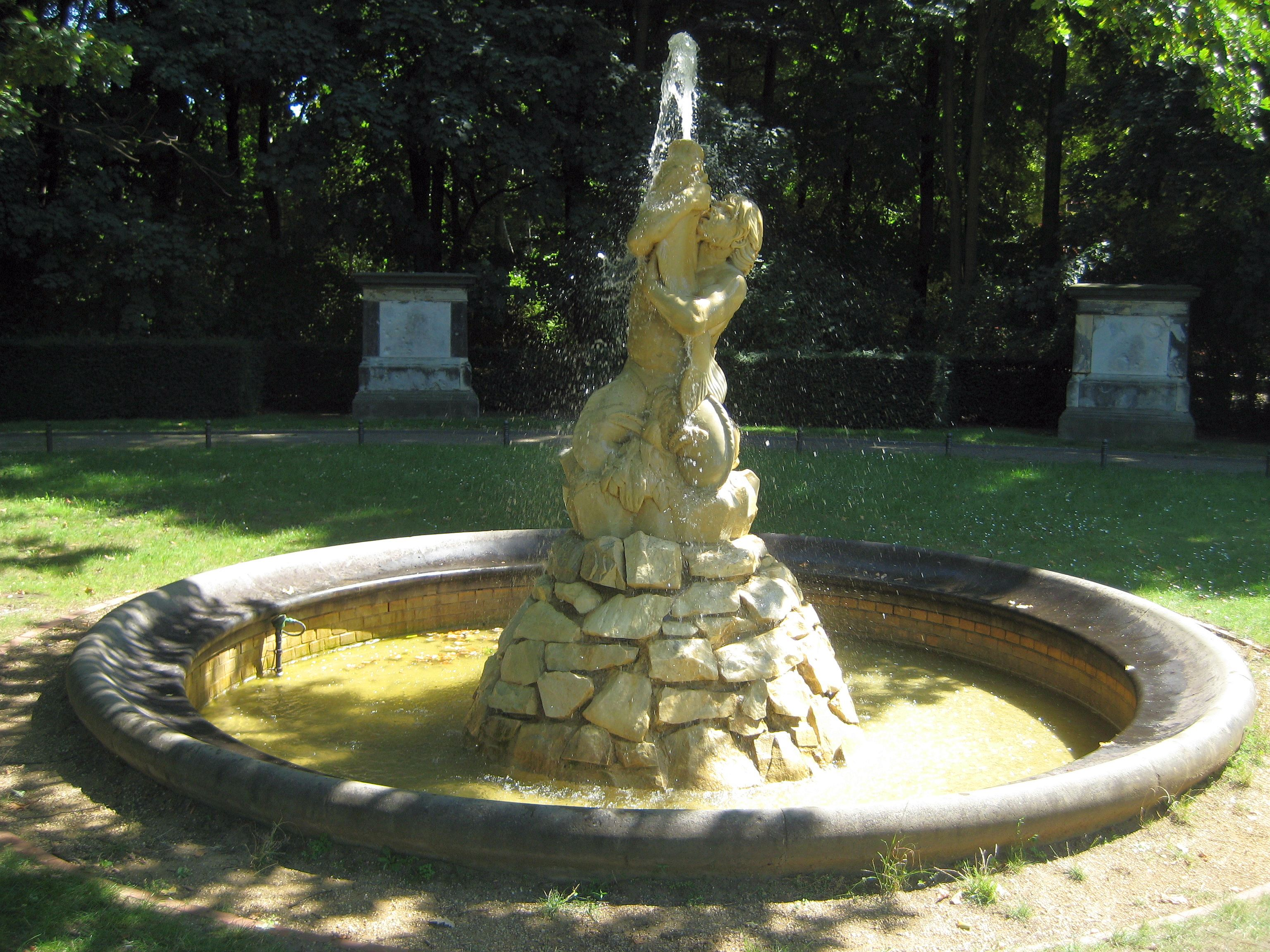 Triton fountain at Großenfürstenplatz in Großer Tiergarten in Berlin. Fountain designed by Joseph von Kopf (1888) and restored by Harald Haacke (1987). Kratt 1998: Katalognummer 112a (Kratt 1998 = Regina Kratt: Joseph von Kopf: 1827 - 1903; das Werk des Bildhauers mit typologischen Studien zur Büste und Gruppe, Aachen/Mainz 1998 (zugleich: Karlsruhe, Universität, Dissertation, 1995), ISBN 3-89653-248-0.).